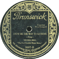 A record of Wendell Hall's Show Me The Way To Go Home, Brunswick Records